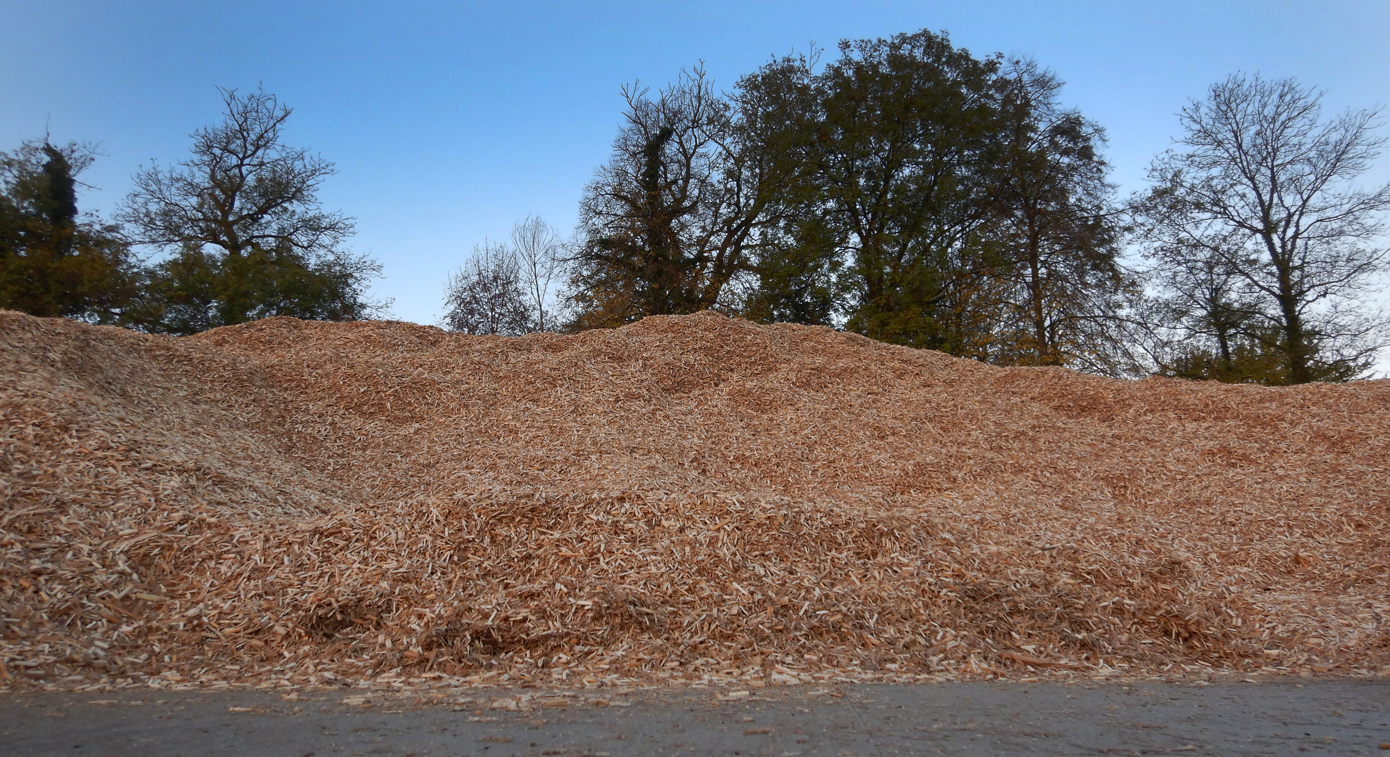 Miscanthus ground for use in mulch, in Lille (Northern France), 2018 Lamiot